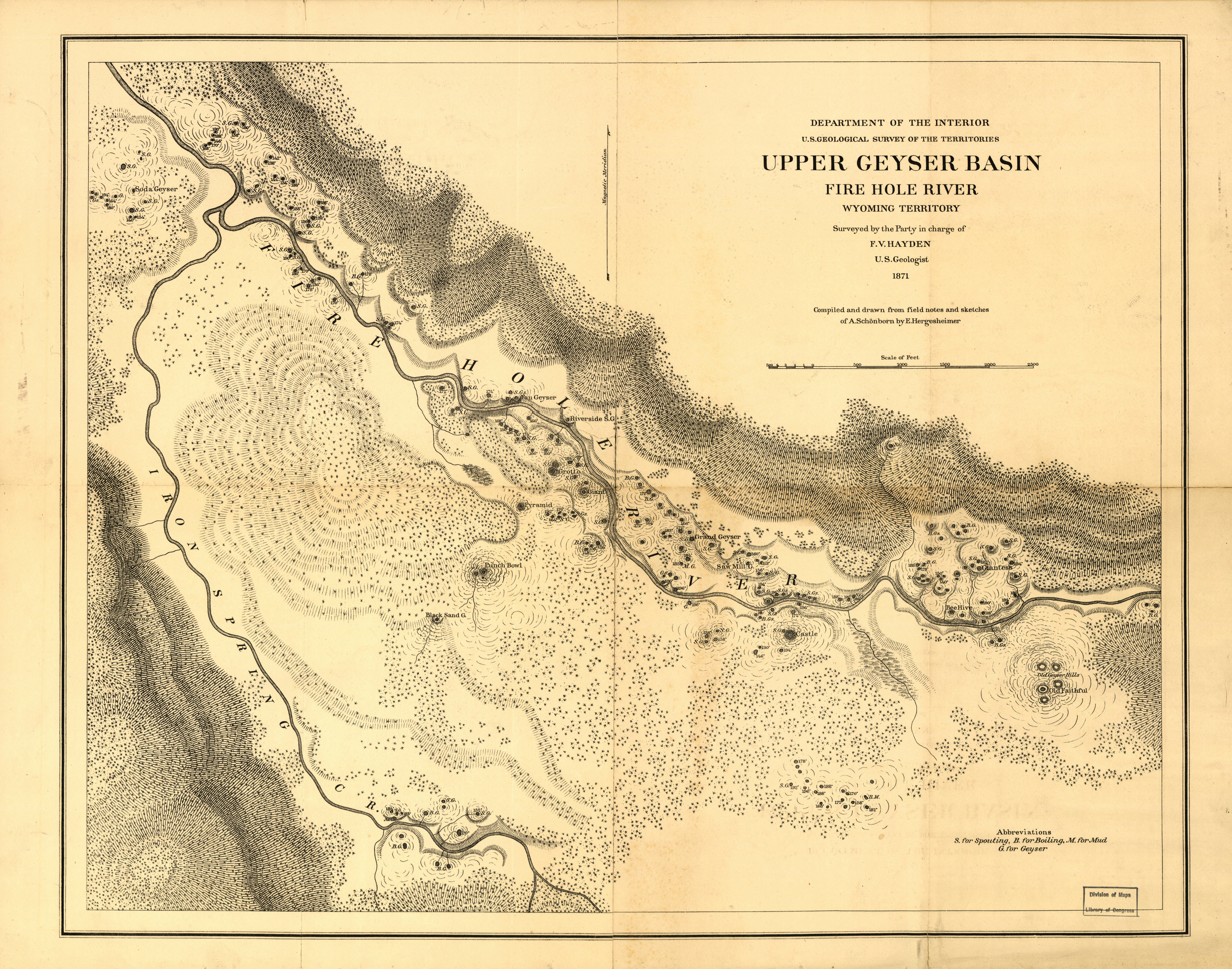 Upper Geyser Basin, Fire Hole River, Wyoming Territory. Geological Survey of the Territories (U.S.) 1871